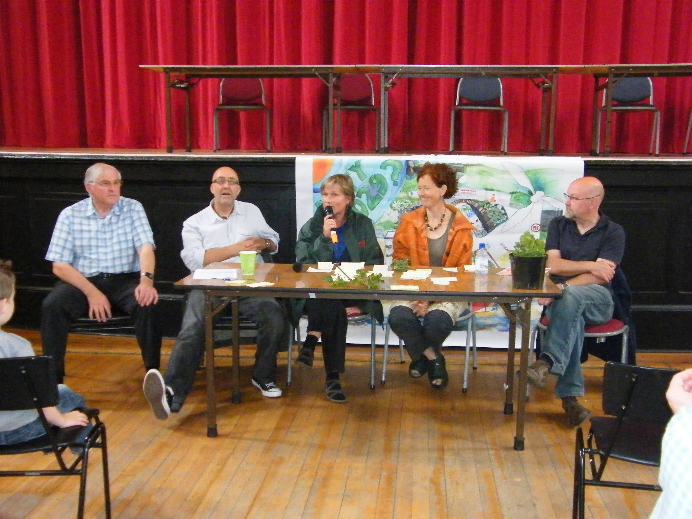 The Panel of BBC Radio Show Gardeners' Question Time at a public recording of their show, 2010.